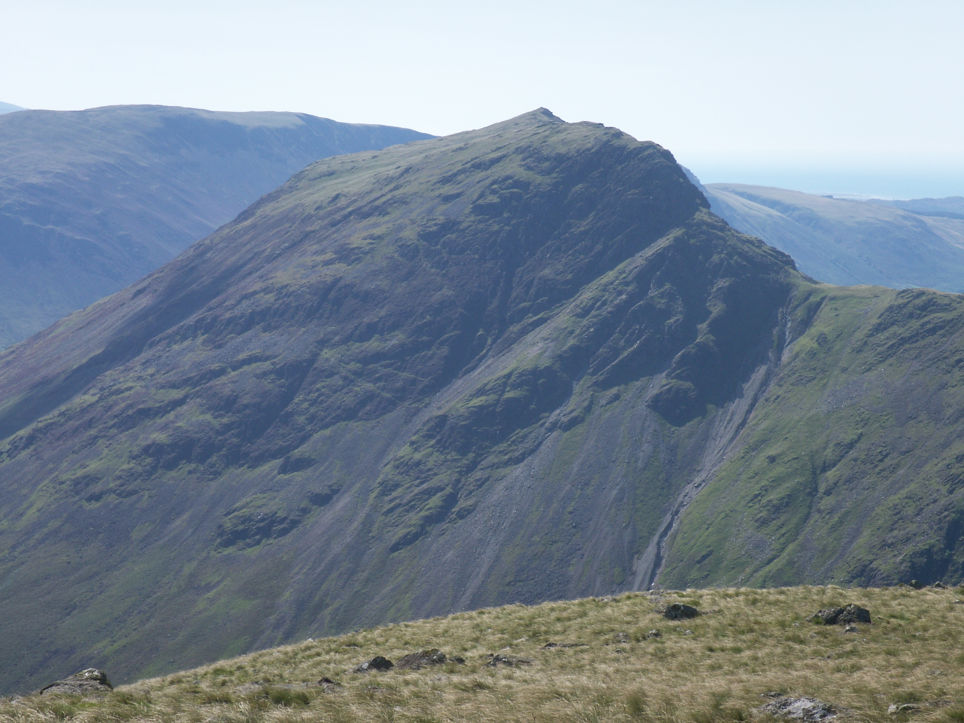 Yewbarrow as seen from Looking Stead on Pillar. Own photo.